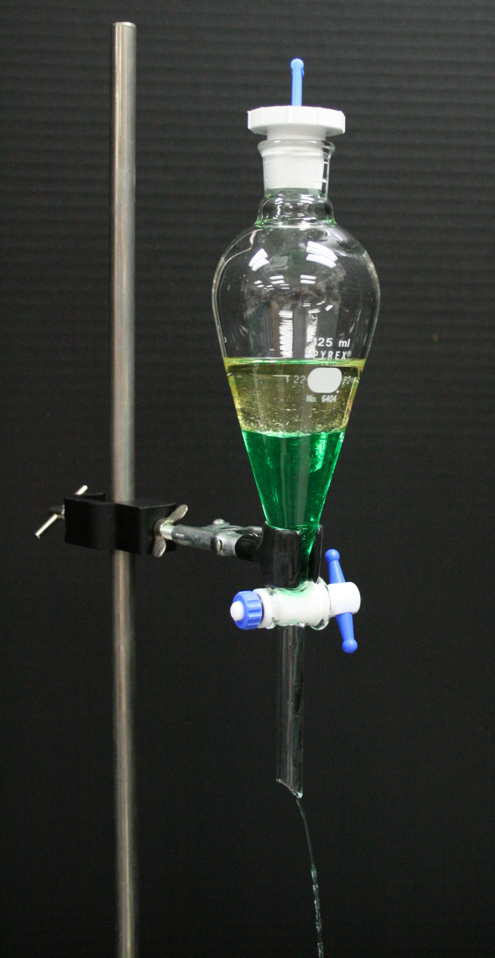 A separatory funnel demonstrating the separation of oil and colored water.